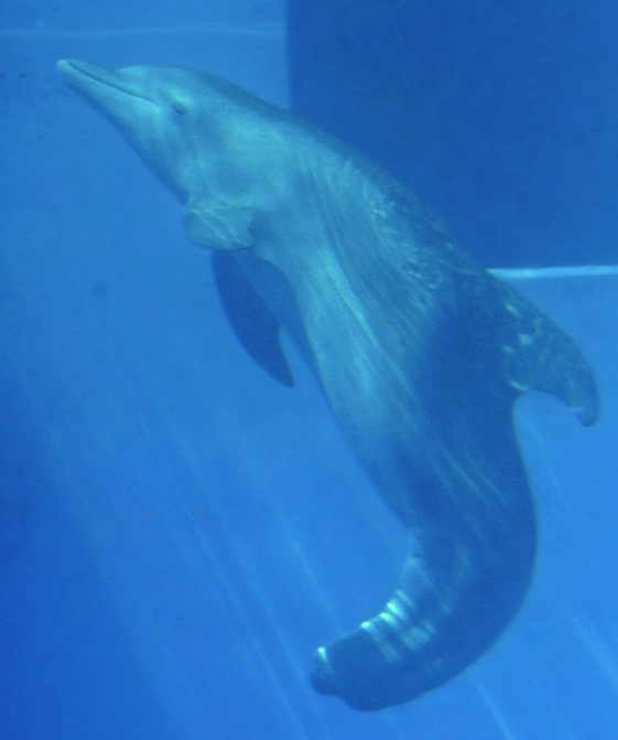 Winter, the Dolphin with no tail in Clearwater, Florida.